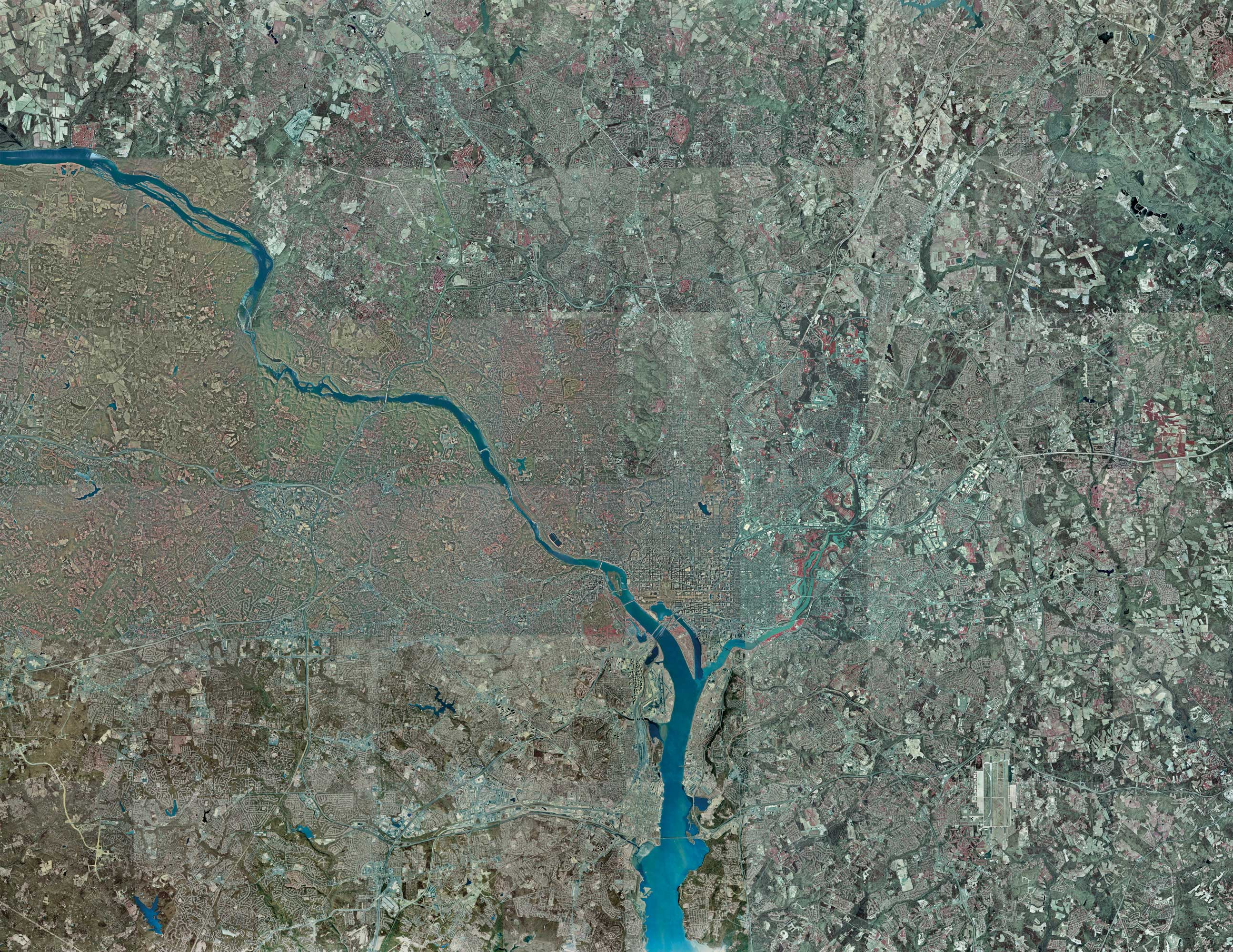 Washington, D.C. aerial photo